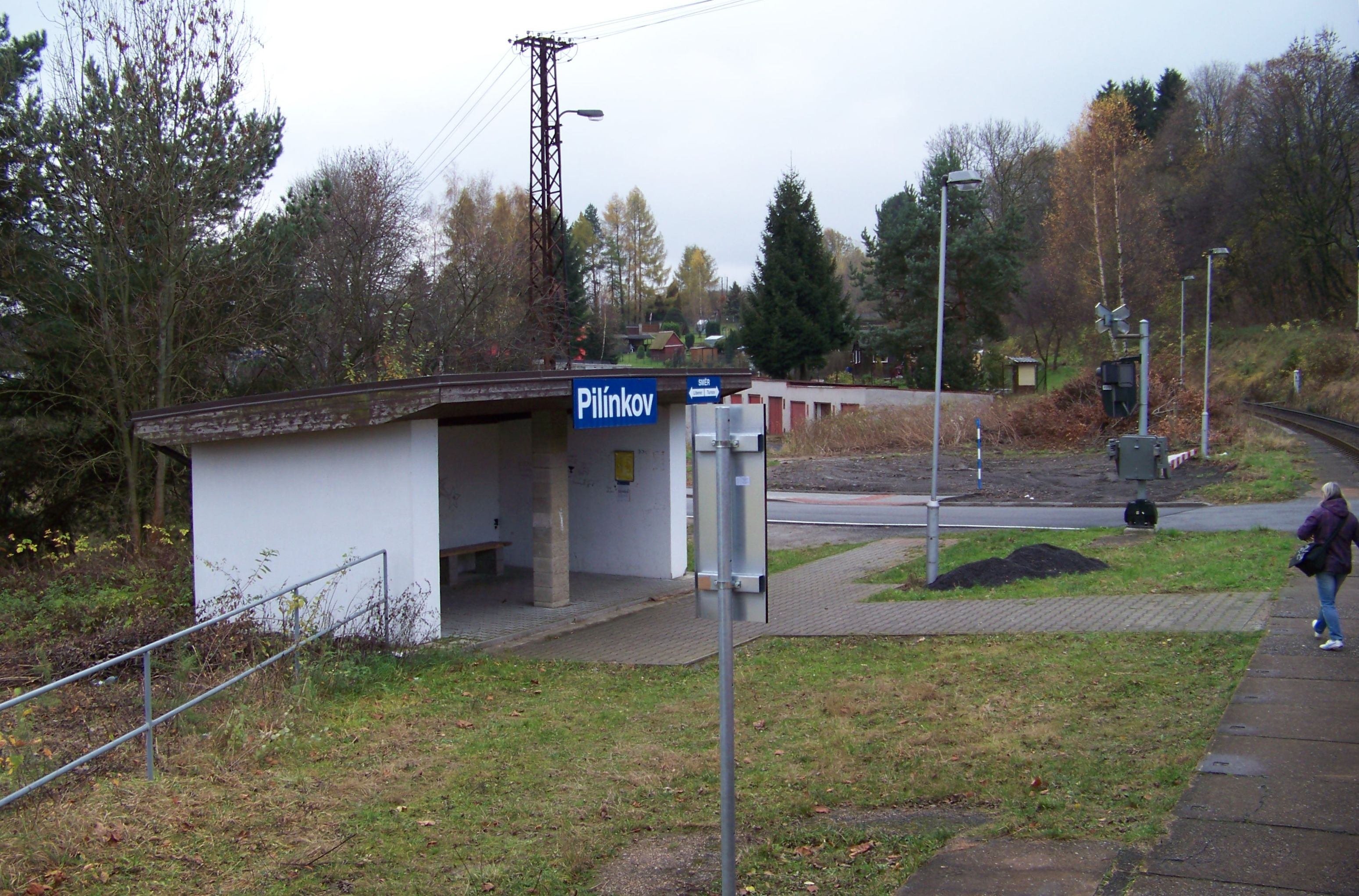 Liberec-Pilínkov, Liberec District, Liberec Region, Czech Republic. Train stop Pilínkov.